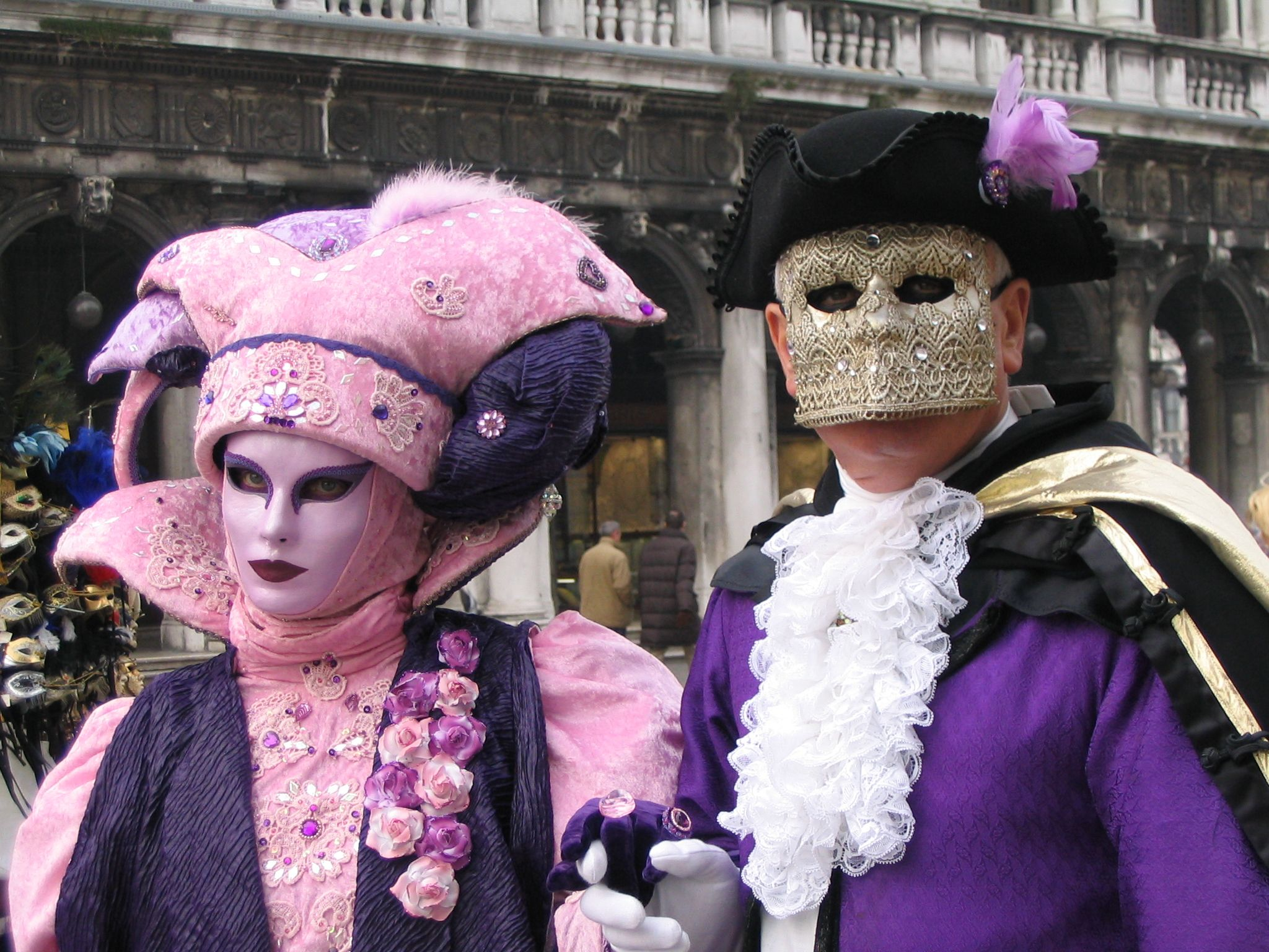 Batch Photo By wanblee =